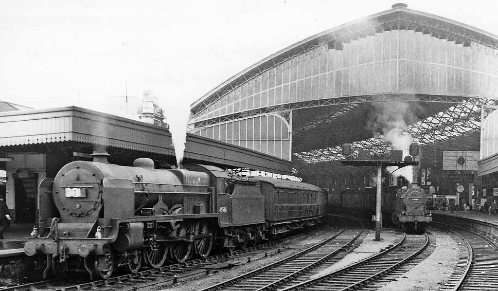 Bristol Temple Meads Station and an Up LMR express. Via westward, from the north/east end of No. 9 platform. The 08.50 Paignton to Leeds express stands at No. 7 platform with LMS Fowler Class 6P 4-6-0 No. 45506 'The Royal Pioneer Corps', which has just taken over for the journey up the ex-Midland main line via Birmingham (New St.). In the centre road is an ex-LMS 4F 0-6-0 No. 44560.